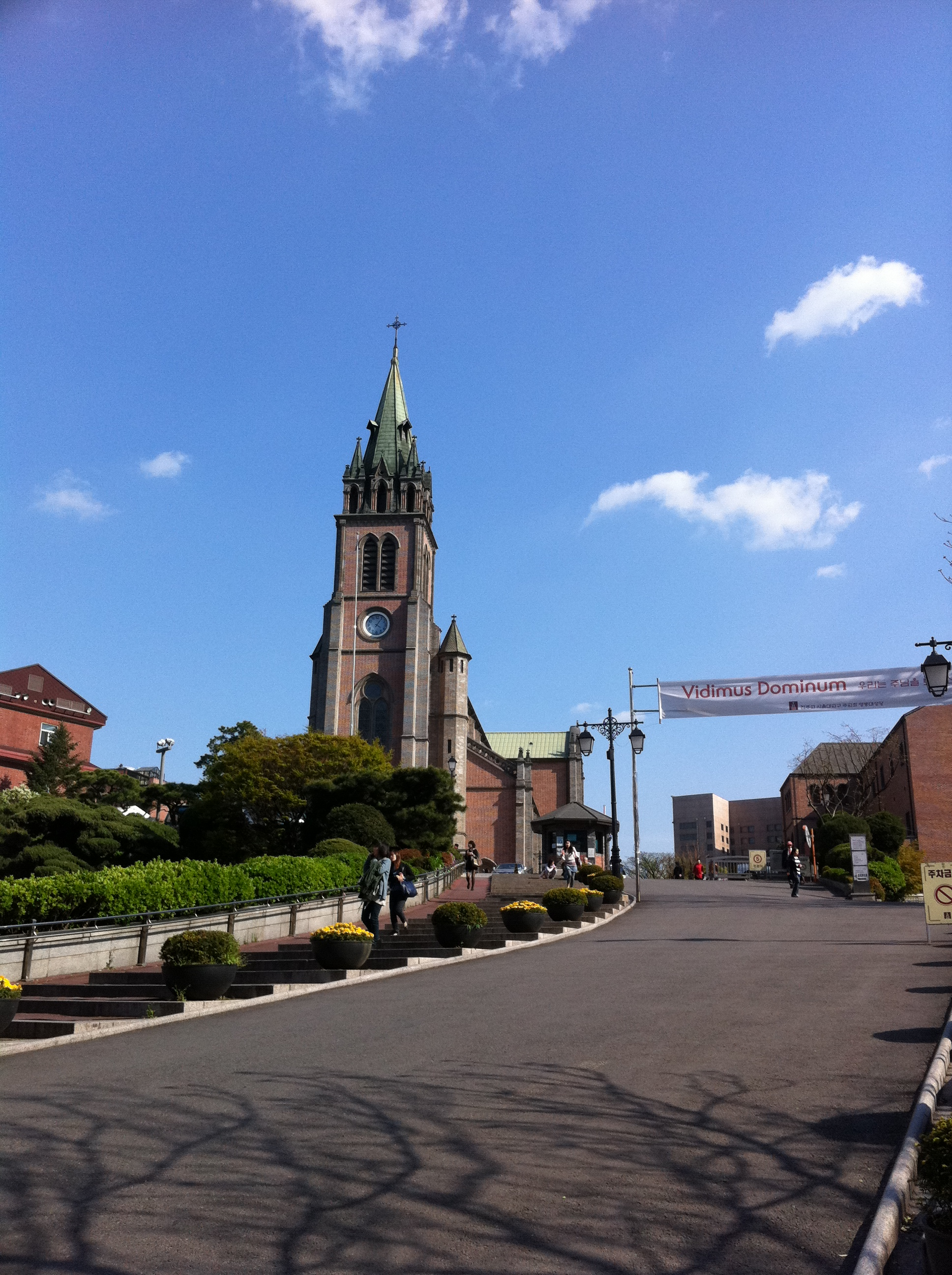 Myeongdong Cathedral.